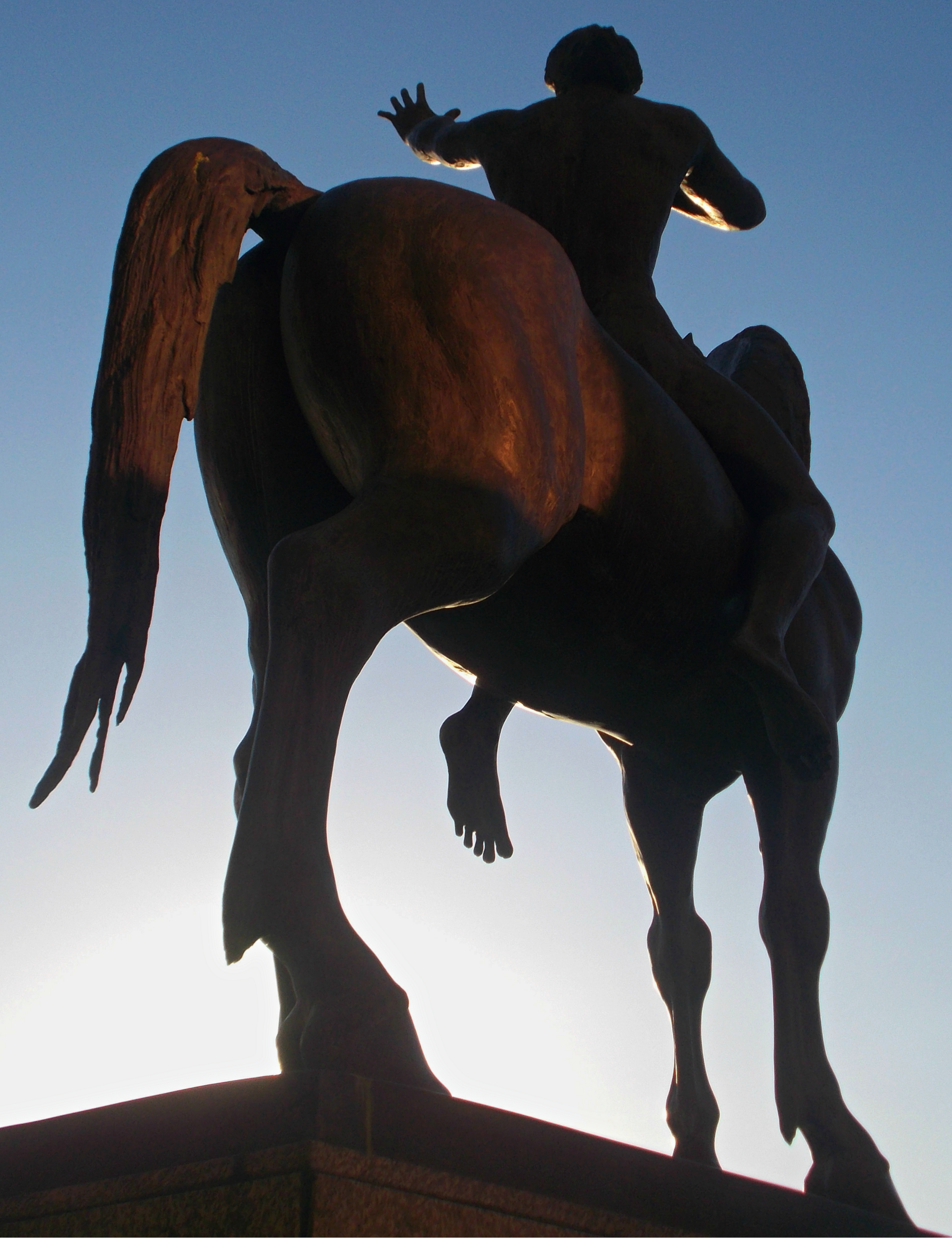 The Messenger is a statue by the English sculptor David Wynne, OBE of a horse and rider. It was installed in the town centre of Sutton in Greater London, England in 1981.